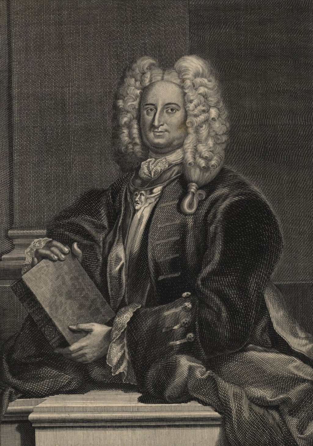 Don Álvaro Navia-Osorio y Vigil, third Marquess of Santa Cruz de Marcenado (1684-1732), a Spanish diplomat, general, and author.